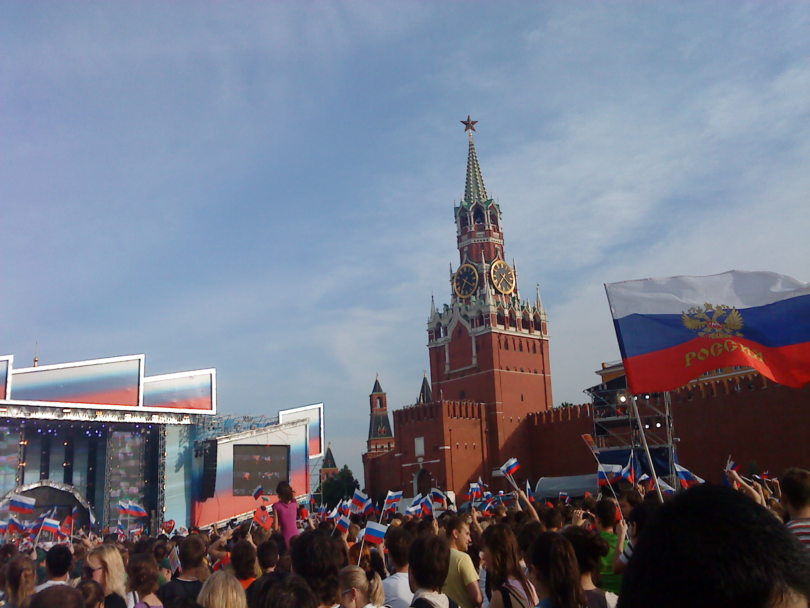 Russia Day celebrations on June 12, 2009